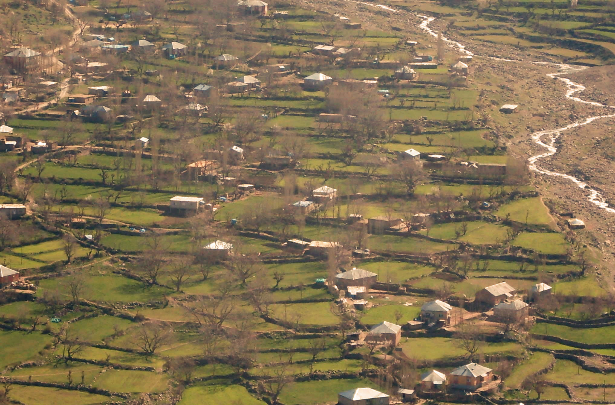 Halmon in spring.